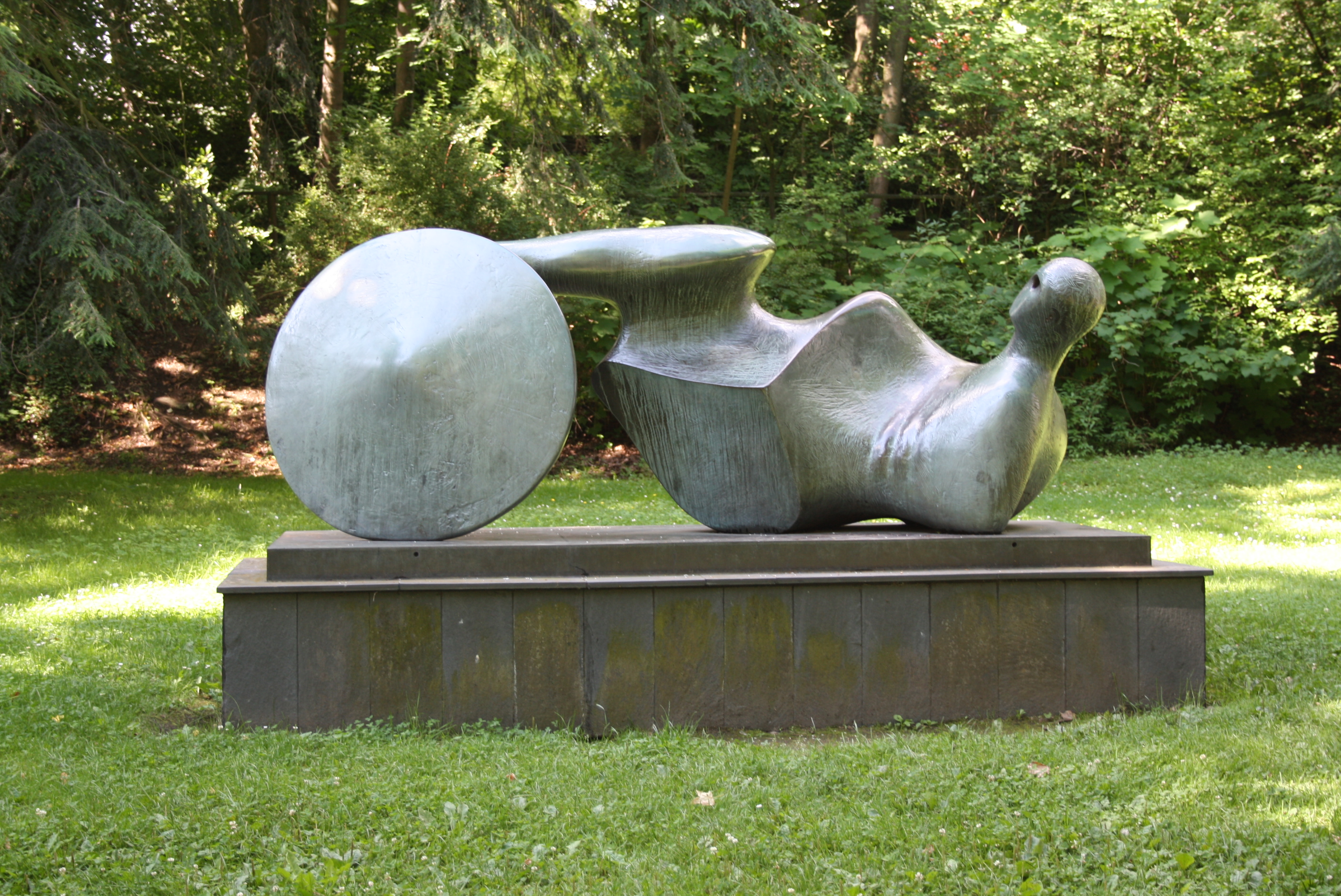 The Goslar Warrior by Henry Moore (1975). Set up in the park behind the Kaiserpfalz in Goslar, Germany.